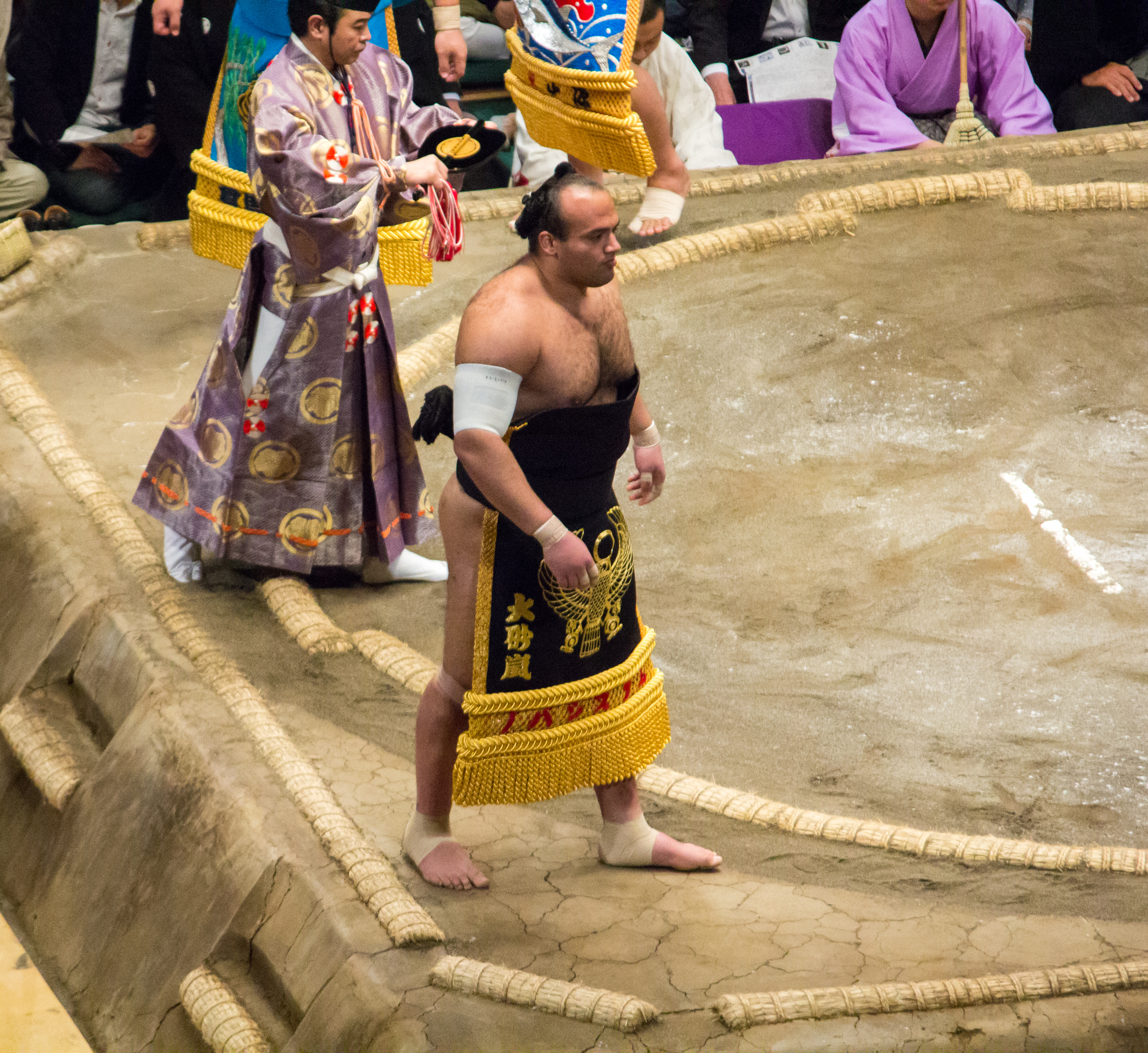 Ōsunaarashi Kintarō at the 2014 May Grand Sumo Tournament in Tokyo, Japan. Canon EOS 60D + EF-S 55-250mm F4-5.6 IS